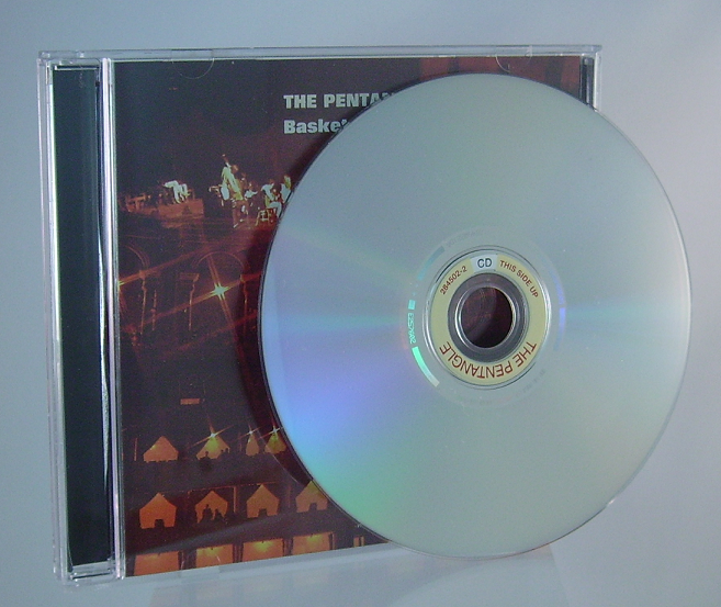 The DualDisc format: one layer of CD, one layer of DVD